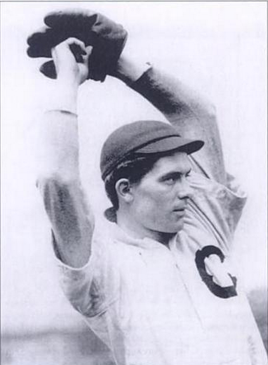 Photograph of Carl Lundgren